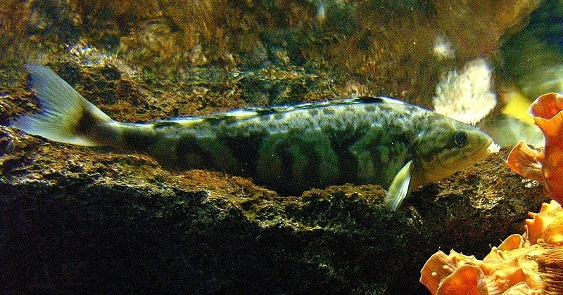 ホッケ Arabesque greenling Species Pleurogrammus azonus Familia Hexagrammidae Location Copyright OpenCage